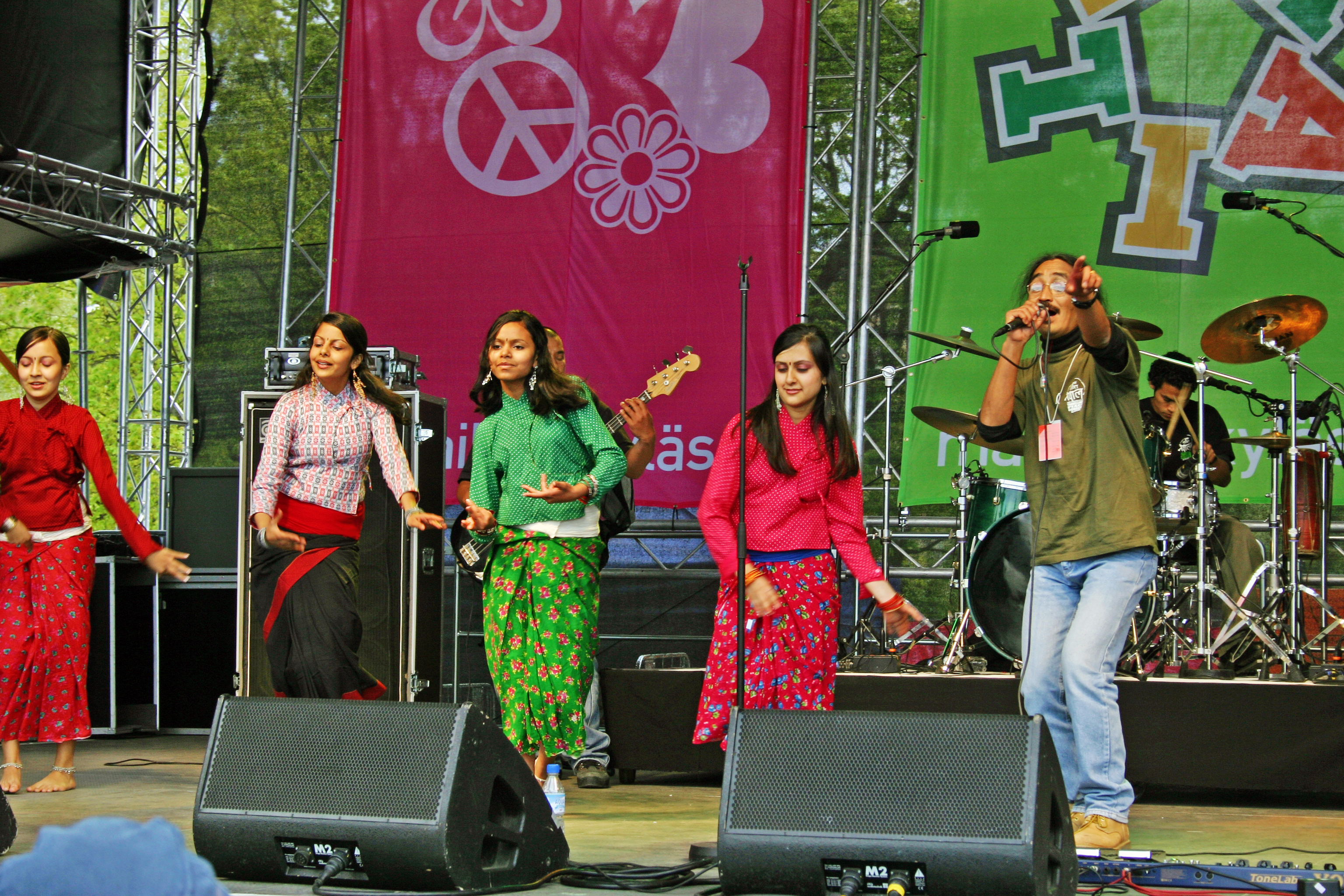 Amrit Gurung - solist of Nepathya-band (Nepal). Photo from Maailma Kylässä (World Village) -festival in Helsinki, Finland. 28.5.2006